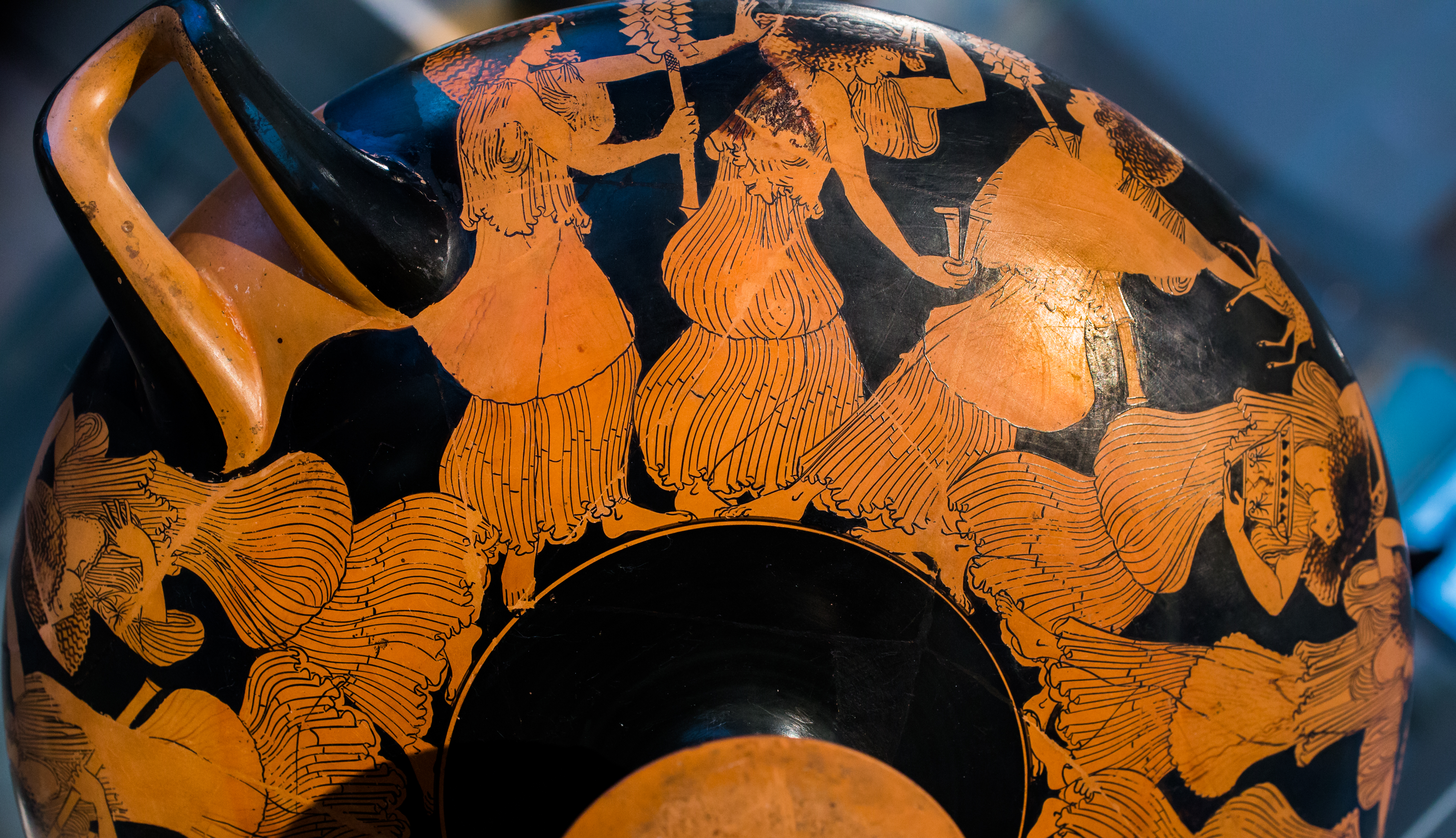 object type / vase shape: attic red figure cup type B (kylix), foot not belonging - description: interior: satyr playing auloi, Dionysos with thyrsos and wine - exterior side A and B: women / maenads in ecstatic dance around the cult image of Dionysos at the Athenian feast of Lenaia - production place: Athens - potter: Hieron, signed on one handle (incised): HIERON EPOESEN - painter: Makron (middle work group II) - period / date: late archaic, transition to early classical, ca. 490-480 BC - material: pottery (clay) - diameter (without handles): 32,9 cm - findspot: Vulci - museum / inventory number: Berlin, Altes Museum (Antikensammlung) F 2290 - bibliography: John D. Beazley, Attic Red-Figure Vase-Painters, Oxford 1963(2), 462, 48 - Norbert Kunisch, Makron, Mainz 1997, cat. 345 - Please note: The above museum permits photography of its exhibits for private, educational, scientific, non-commercial purposes. If you intend to use the photo for any commercial aime, please contact the museum and ask for permission.